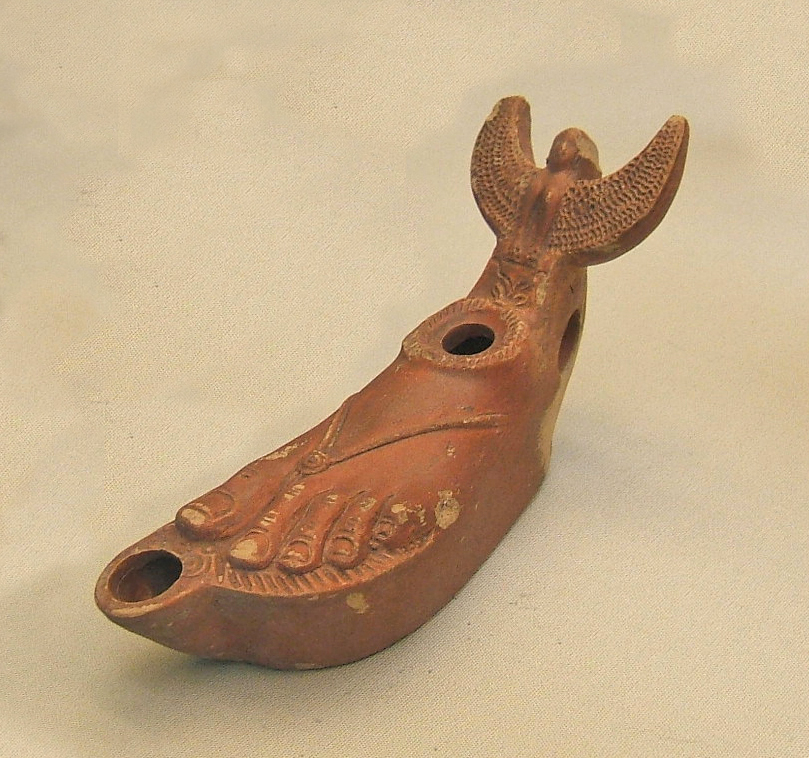 Roman pottery lamp in the shape of a sandalled foot, with a sphinx or siren forming the handle. Made in Italy, 1st century AD. Found in Libya. L. 16.8 cm. British Museum, London. GR 1856.10-1.31